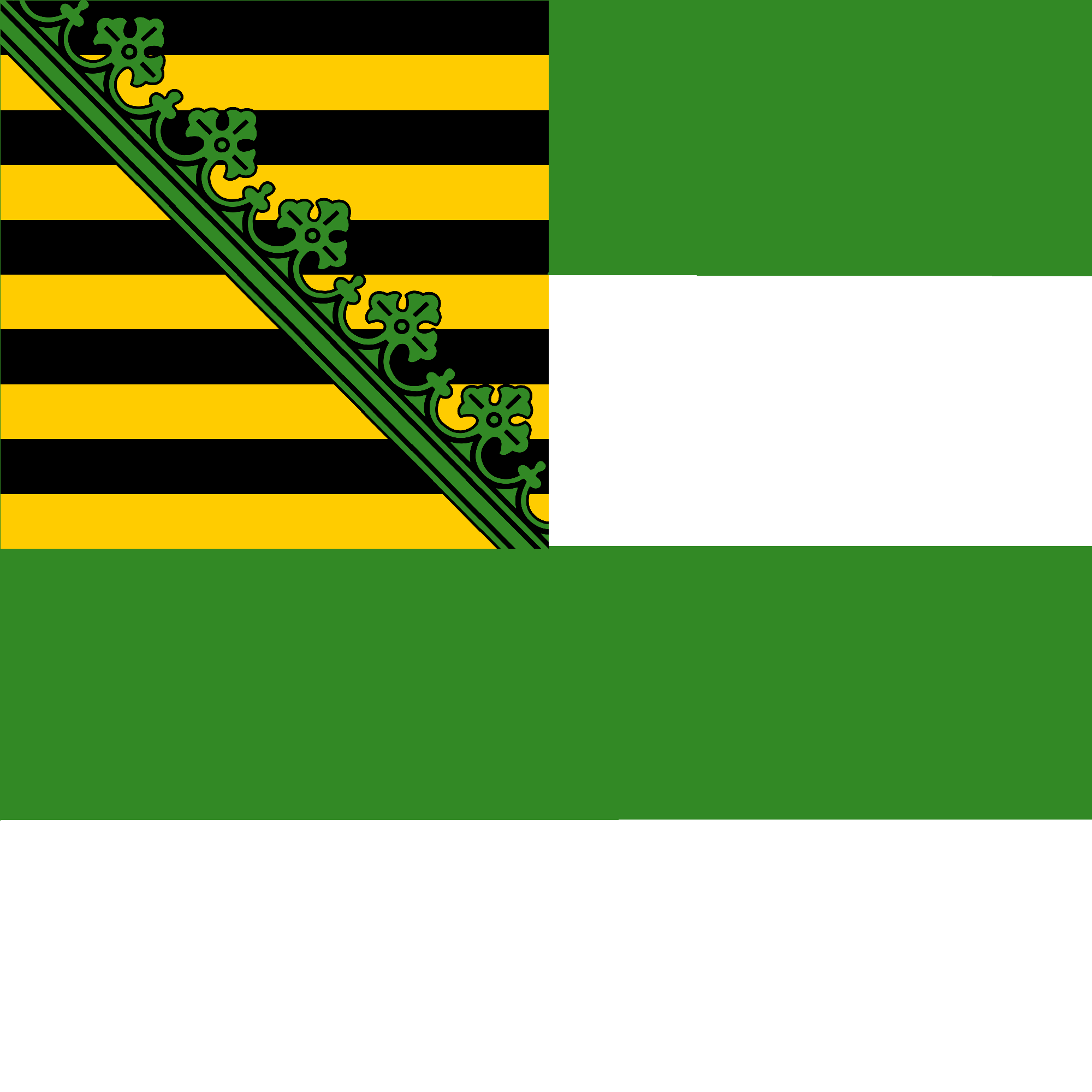 The standard of the Duchy of Saxe-Meiningen.